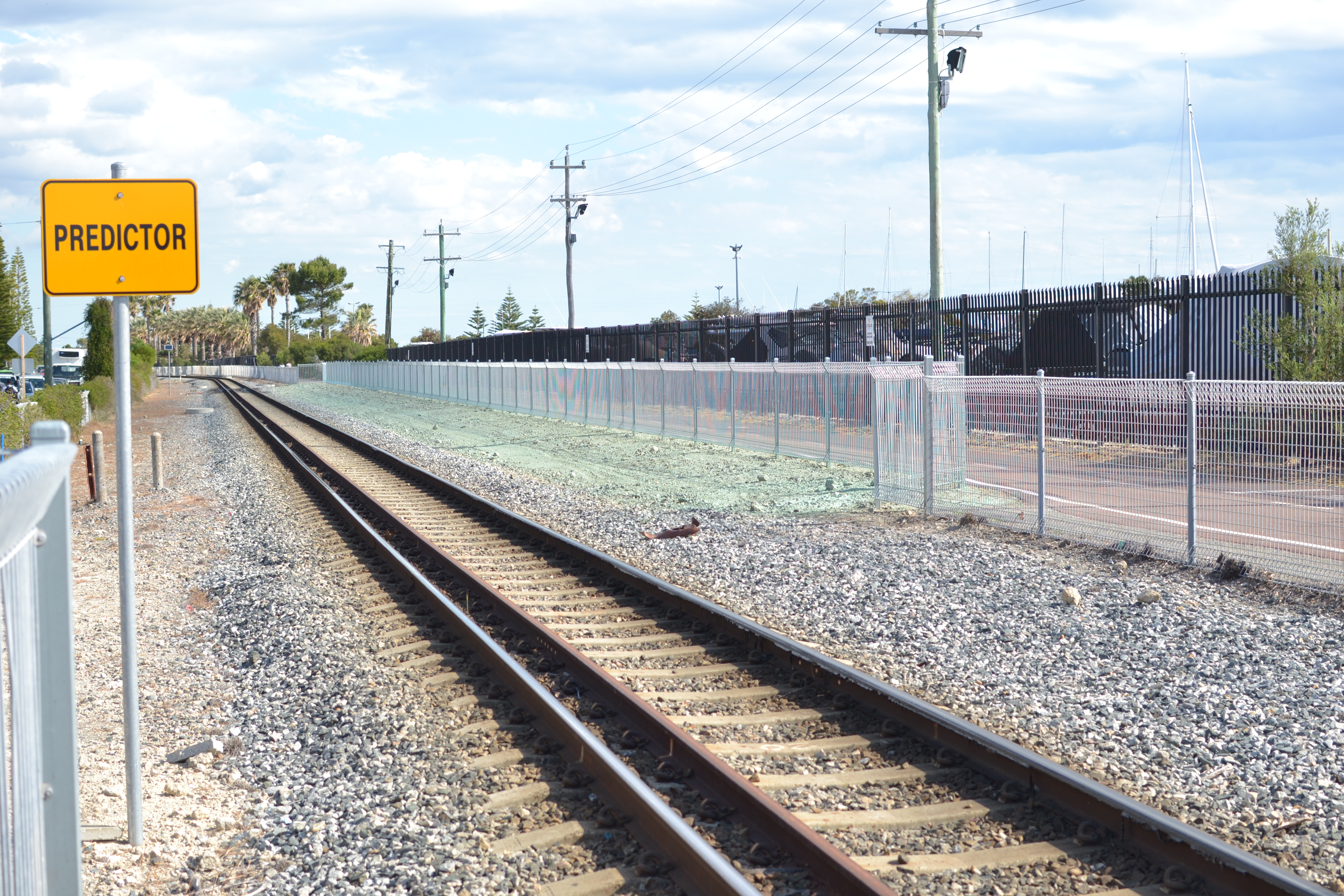 Soon after demolition of the station, looking south from the pedestrian crossing.